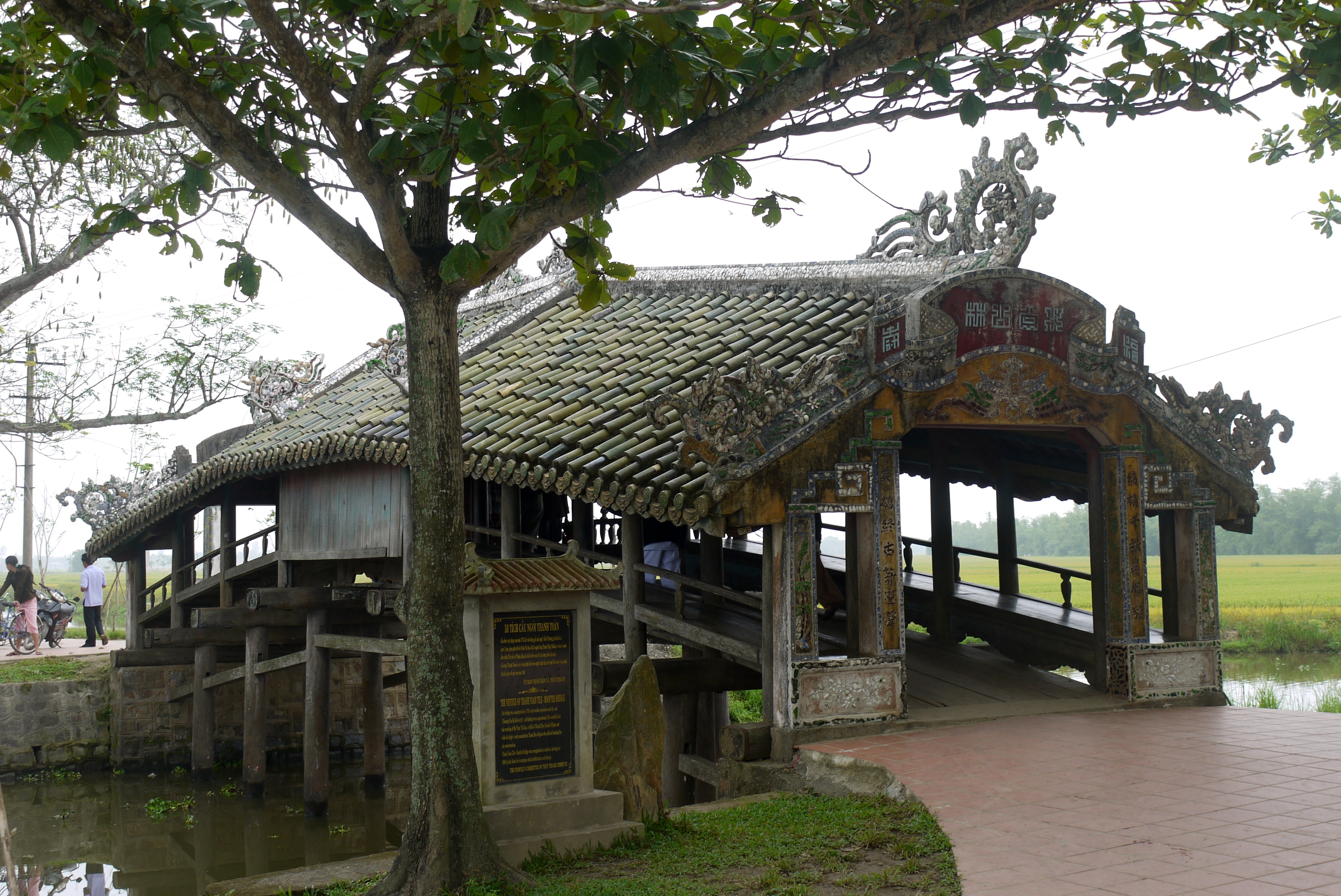 in the countryside near Huế, Vietnam